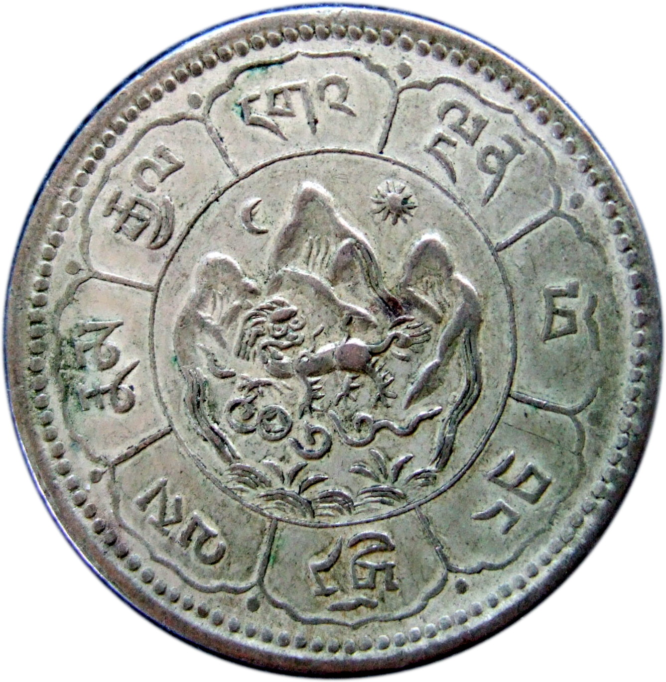 Tibetan 10 srang bullion coin, dated 16-24 (1950)